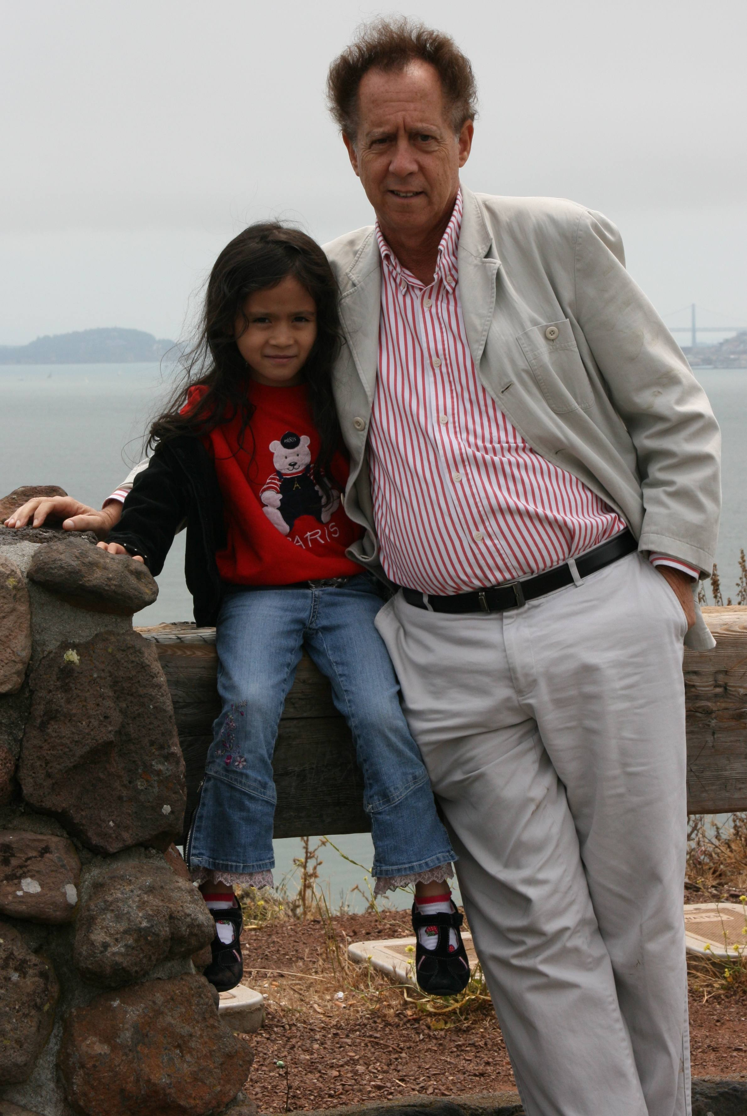 Photo near Golden Gate Bridge, San Francisco